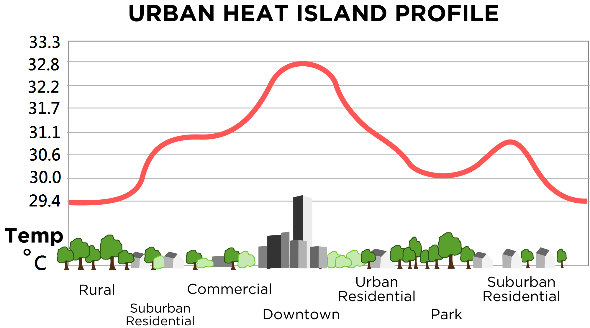 Vastly improved version of this, retraced in SVG. Original images source is this image from NOAA.